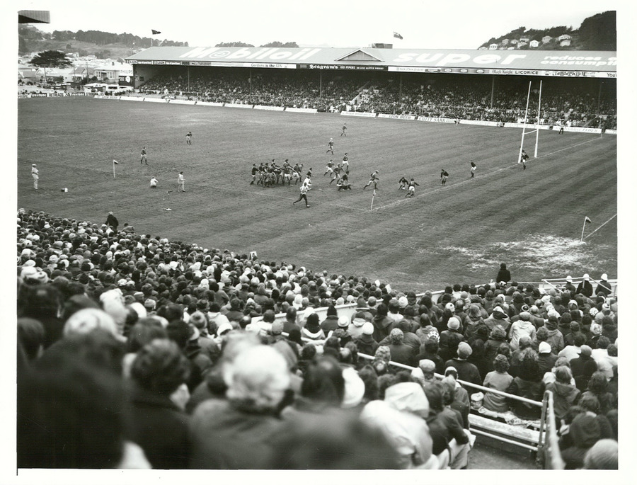 Images from NZ Archives Flickr albums Images uploaded in collaboration between WMUK and the University of Edinburgh